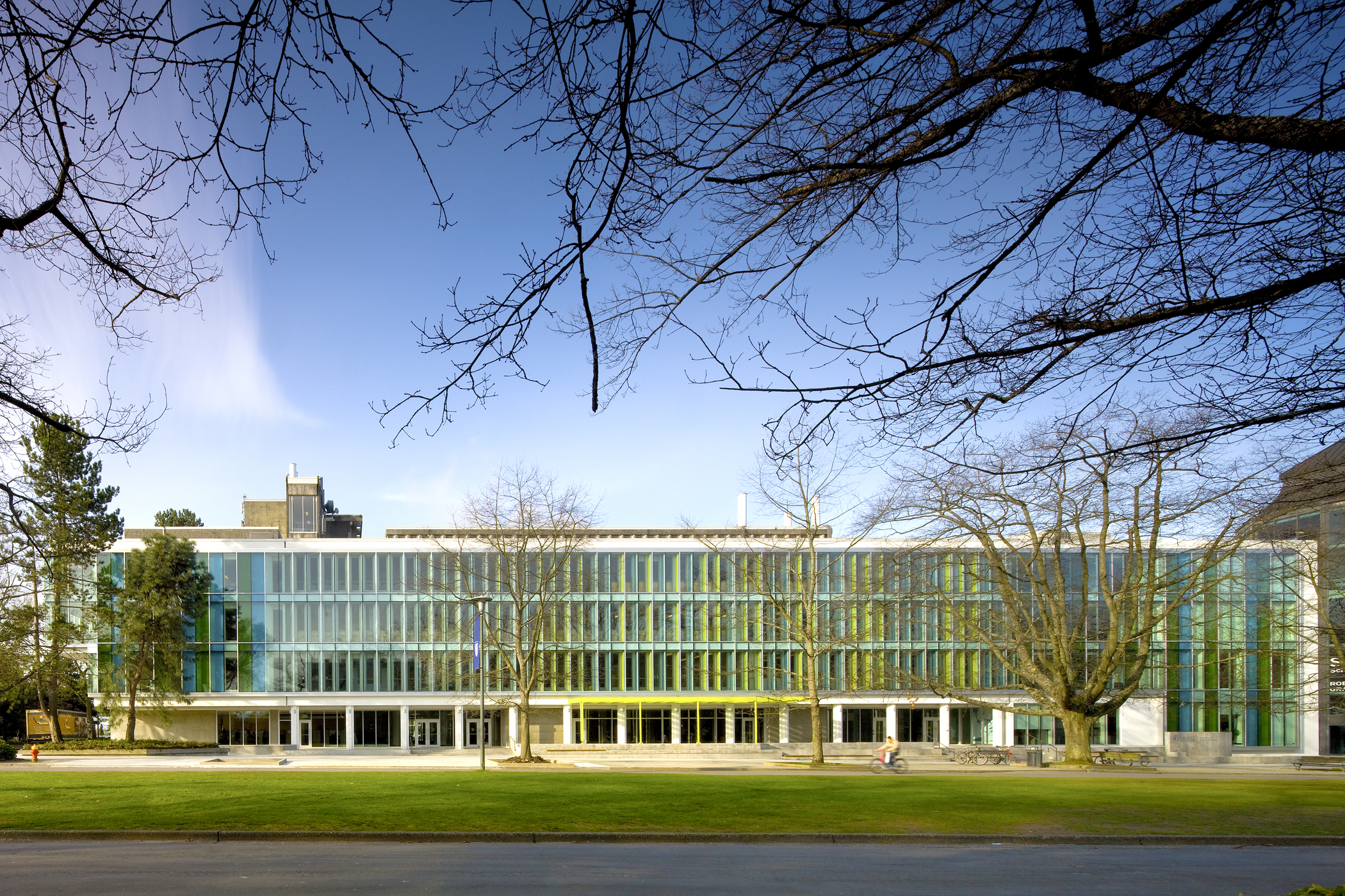 Sauder